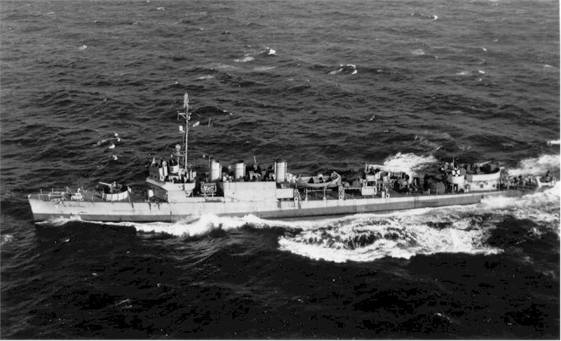 The U.S. Navy high-speed minesweeper USS Howard (DMS-7) underway, circa in 1944.